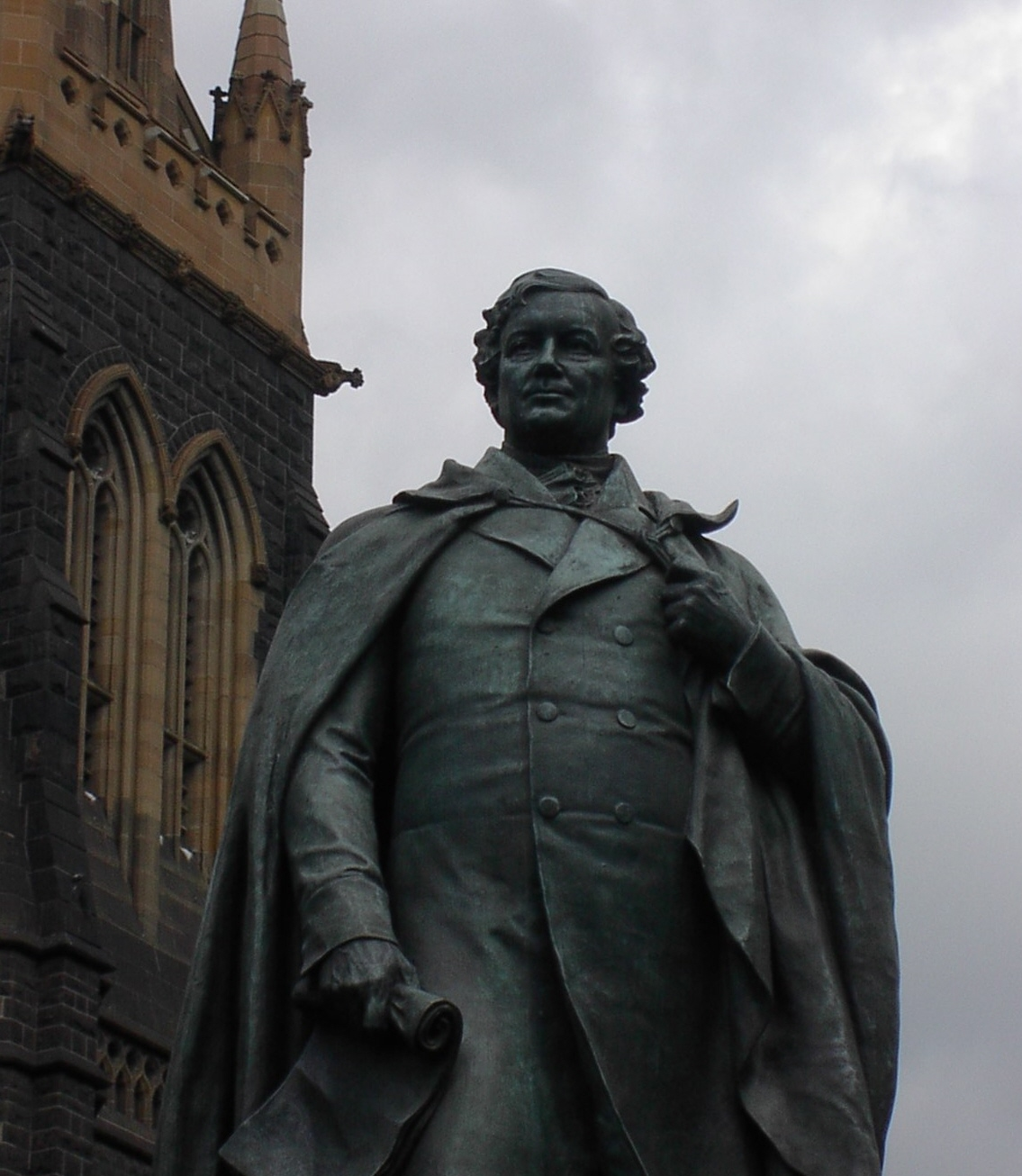 Statue of Daniel O'Connell outside St Patrick's Cathedral, Melbourne by Thomas Brock.[1] Commissioned 1886, cast in Belgium 1888, erected 1890.[2] This photo was taken by me, User:Adam Carr, and is released by me into the public domain